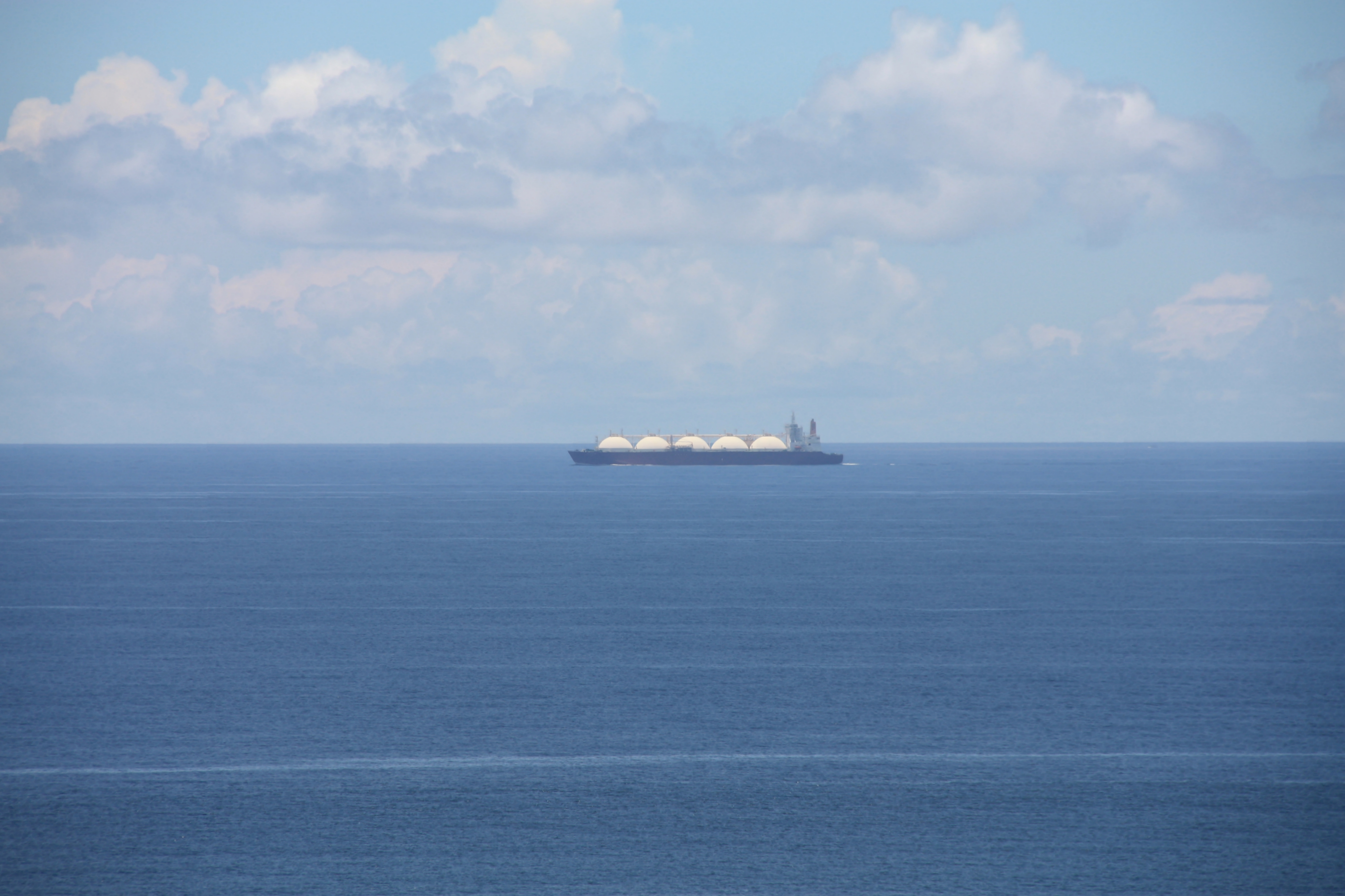 Taitung CountyDōngHé TownshipChintsun